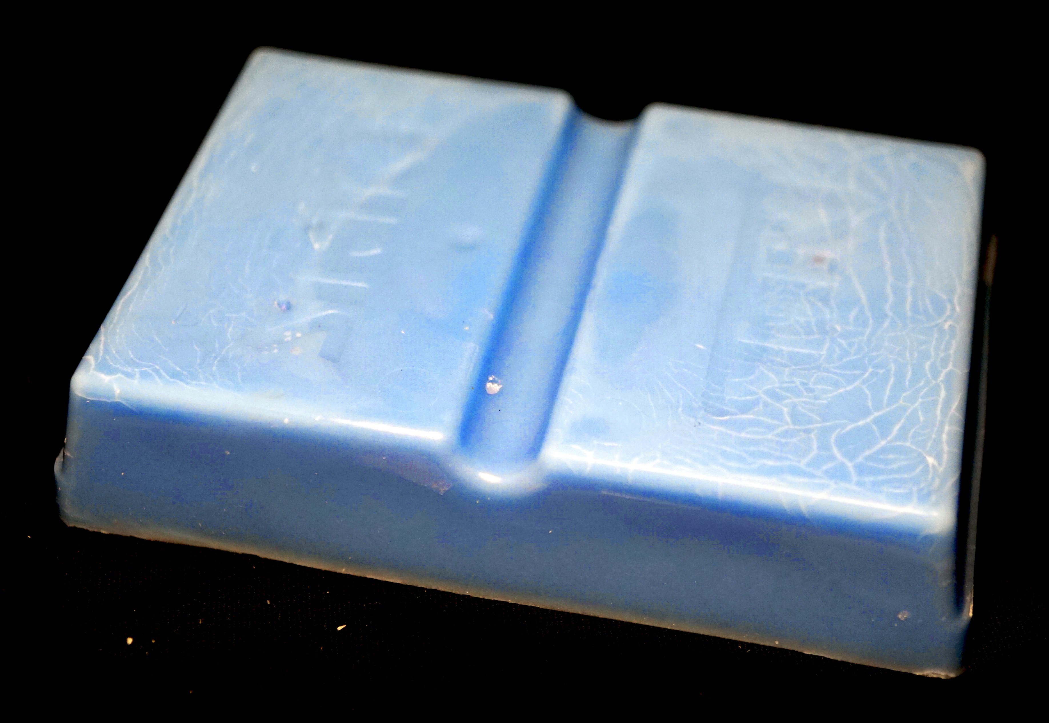 Glide wax MF8 "Medium Fluor Glider" by Start. For temperatures between -7°C ja -12°C. The piece is 60 grams.